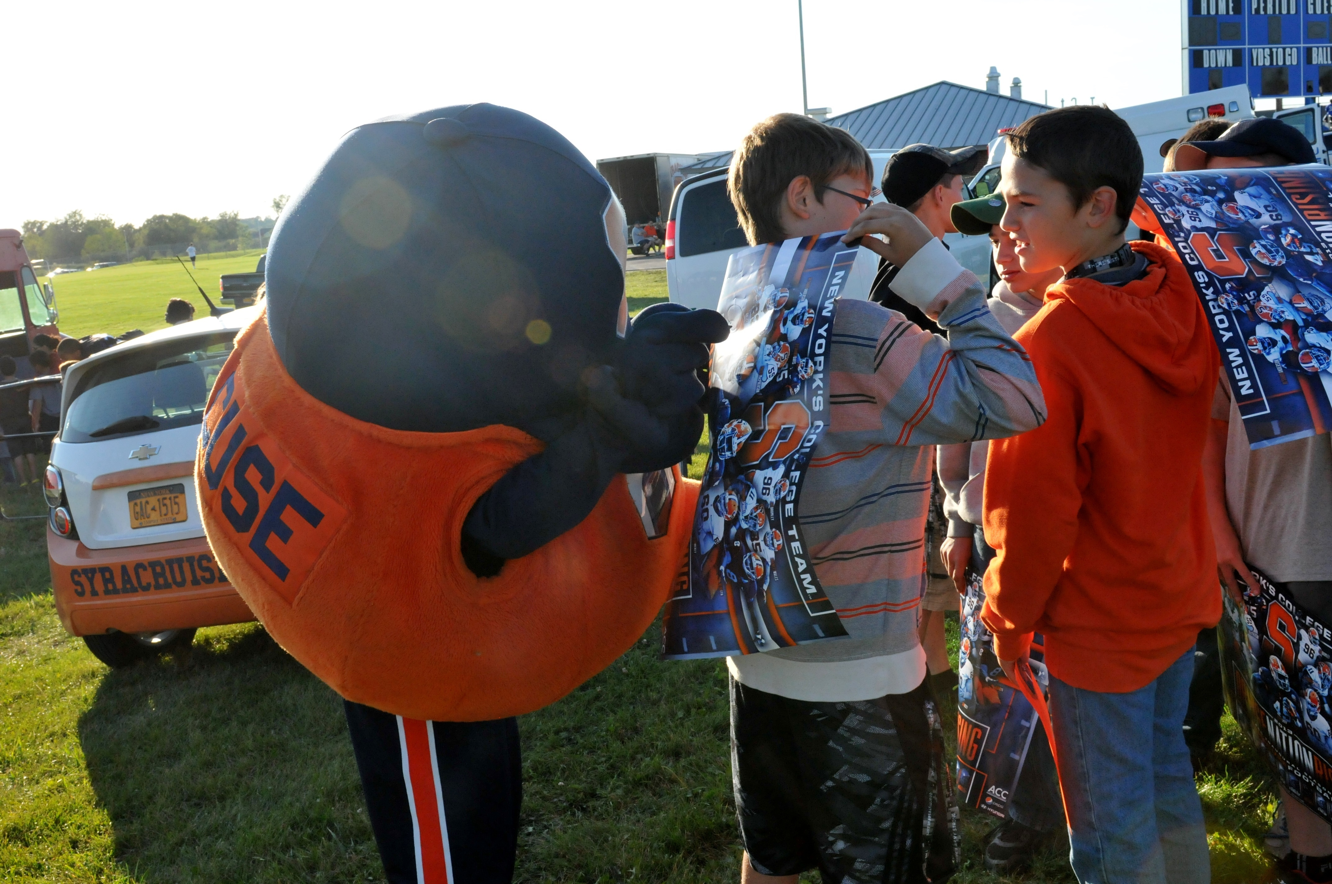 The Syracuse University mascot signs posters for the children of 10th Mountain Division soldiers during a scrimmage game played by the Syracuse University football team at Sligh field at Fort Drum on Aug, 15.